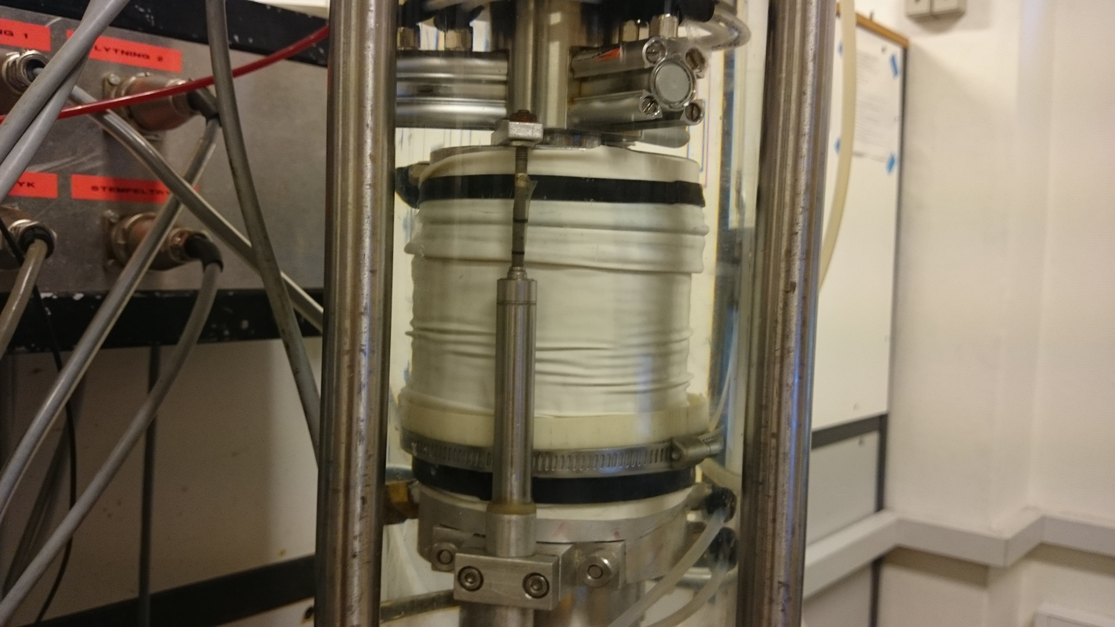 The Danish triaxial in action (beyond 10% compressive strain applied)